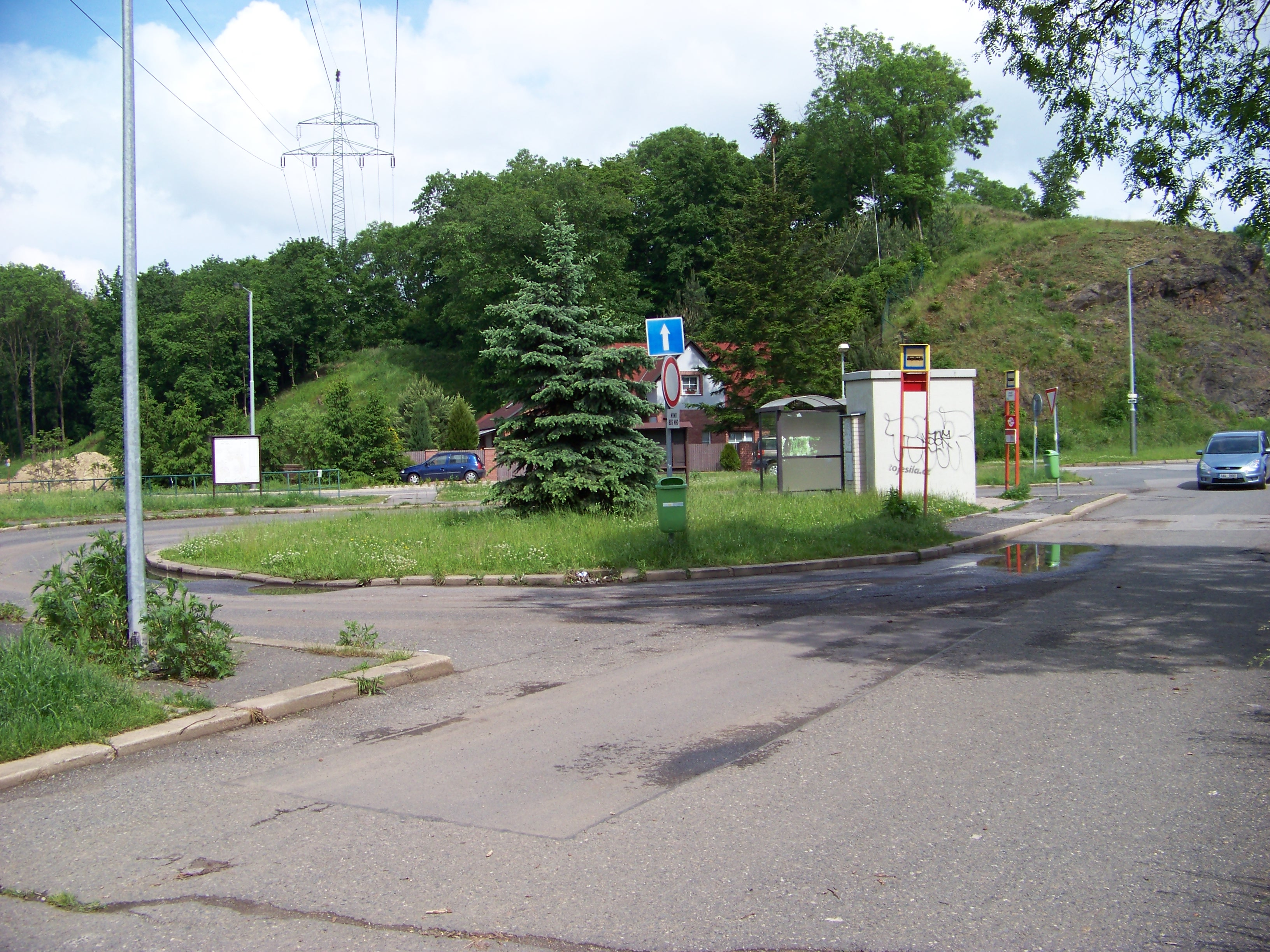 Prague-Dolní Chabry, Czech Republic. K Drahani street, bus loop Dolní Chabry.